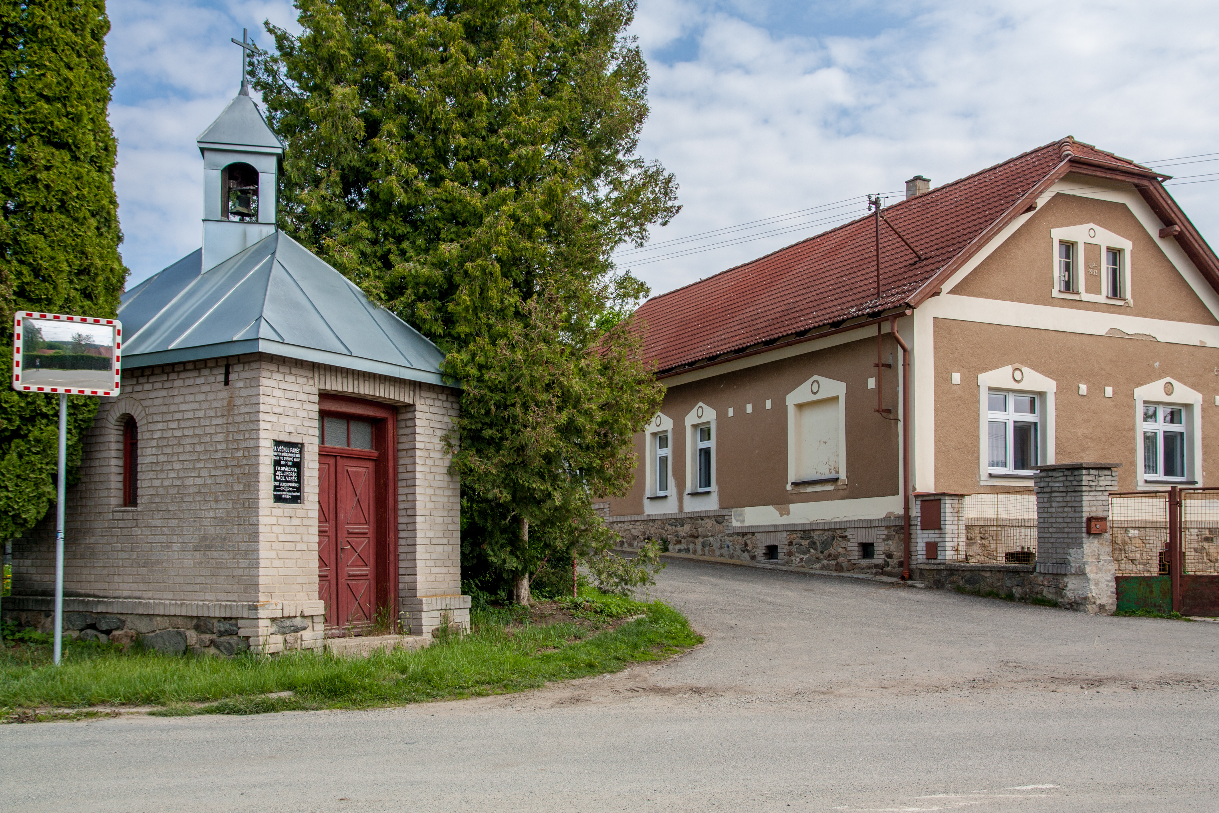 Village square in village Nazdice, Benešov District, Central Bohemian Region, Czechia